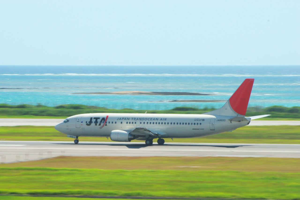 JTA B737-429 (JA8933) Naha airport (OKA/ROAH),Japan runway 18 from observation deck 沖縄写真第3弾はB737特集。